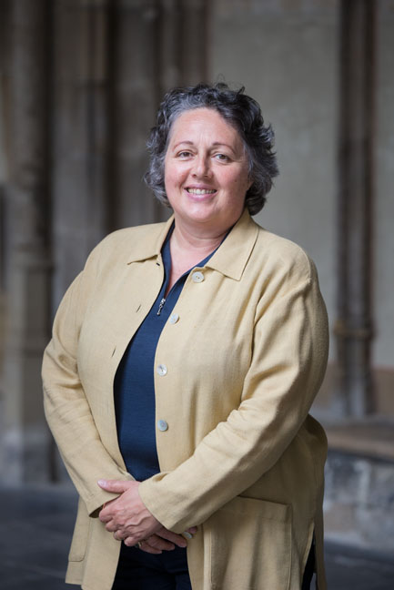 Professional portrait of Prof. Rosi Braidotti inside the Domtuin at Utrecht University.